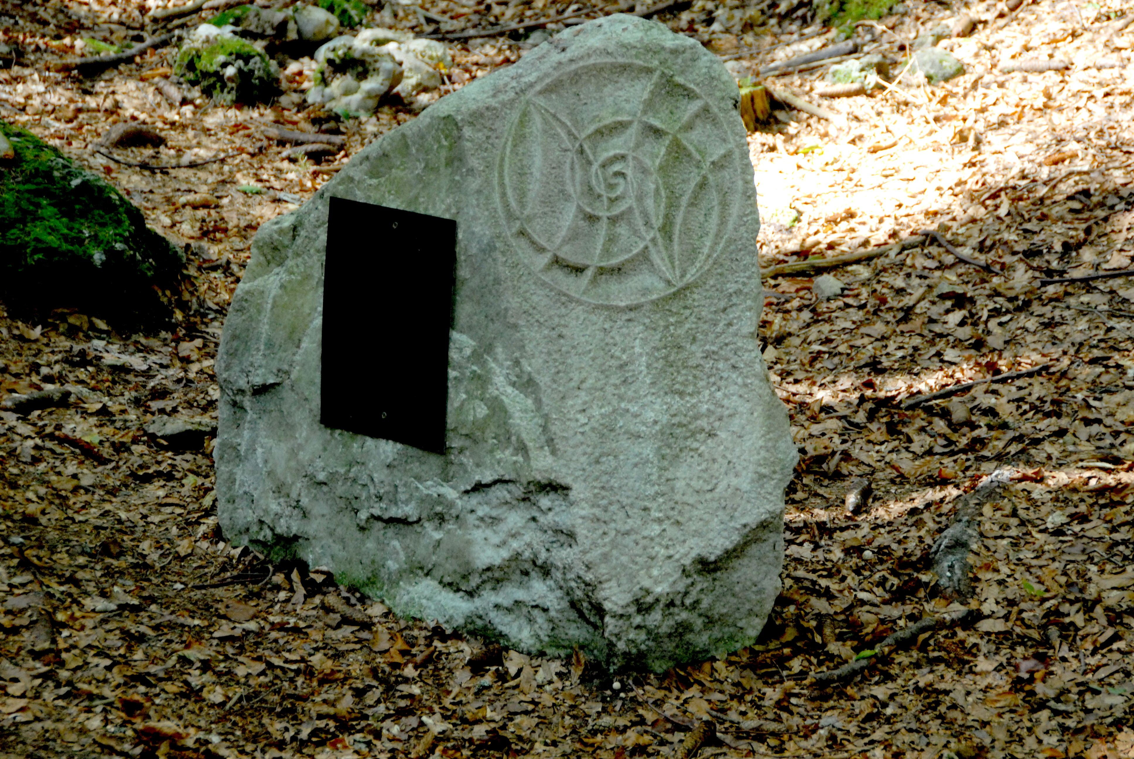 Lithopunktur by Prof. Marko Pogacnik near the village of Rupertiberg in the community of Ludmannsdorf, Carinthia, Austria